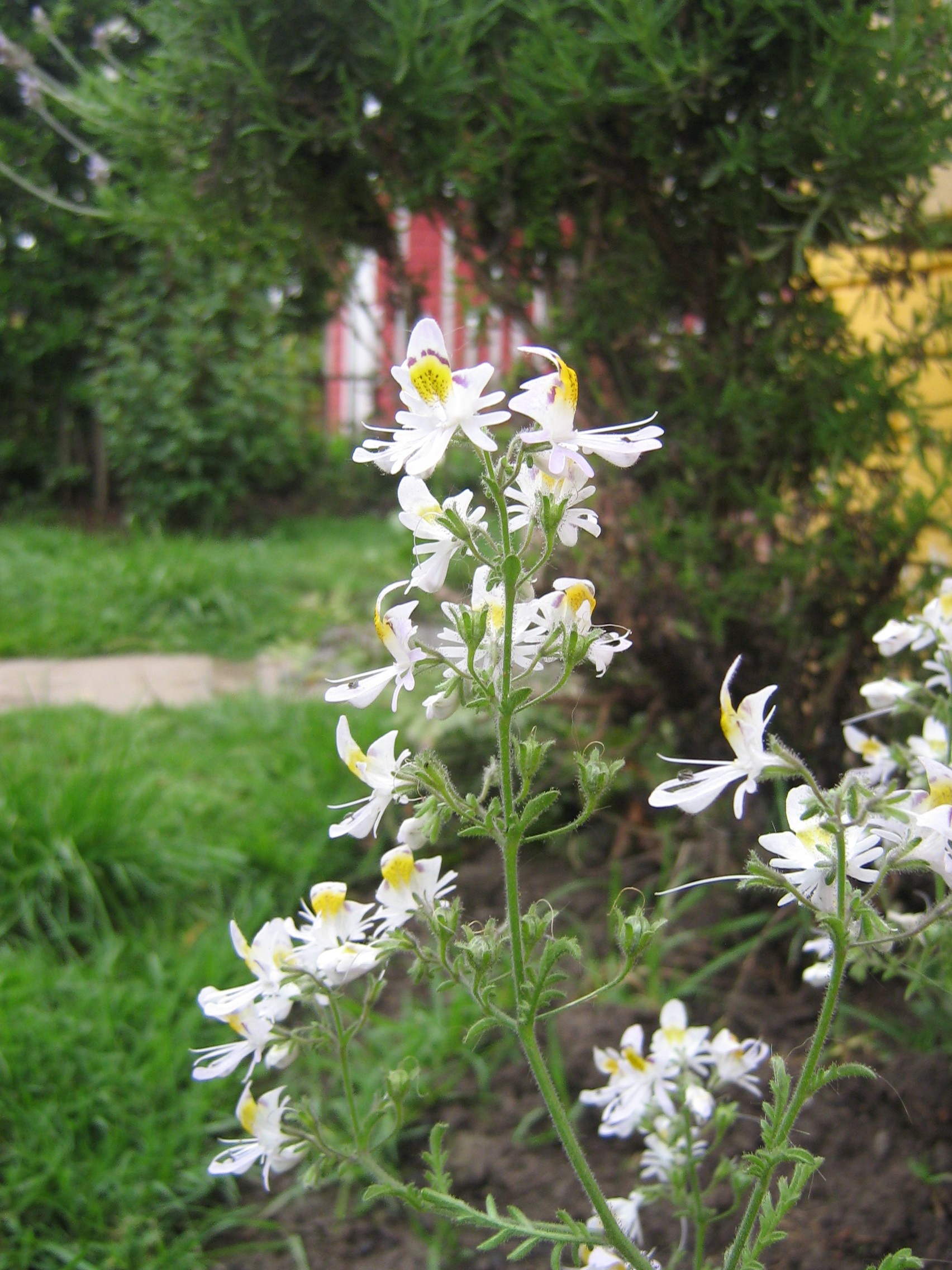 Schizanthus pinnatus Ruiz et Pav., ex hortus